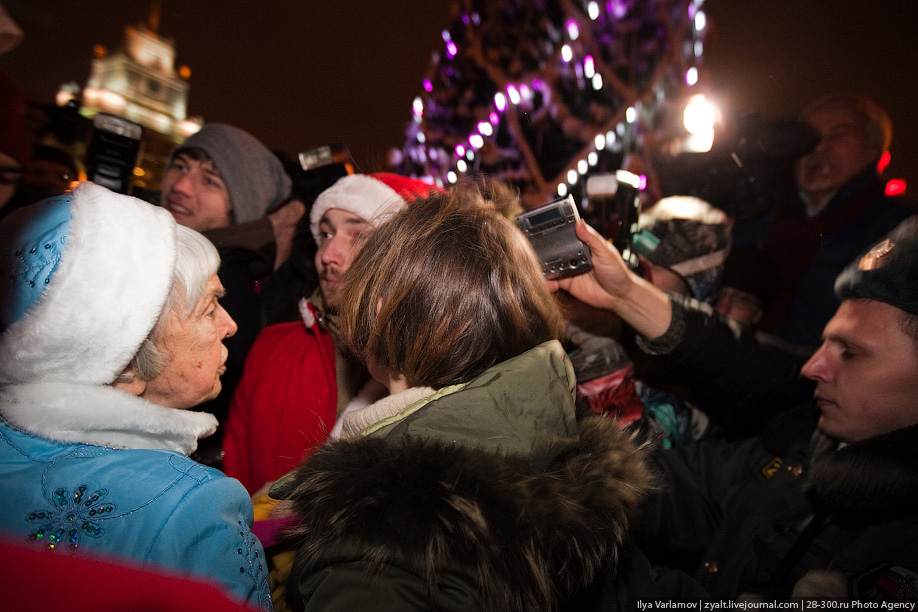 Lyudmila Alexeyeva. Protest action in defense of Article 31 (Freedom of assembly) of the Russian Constitution. Moscow, December 31, 2009